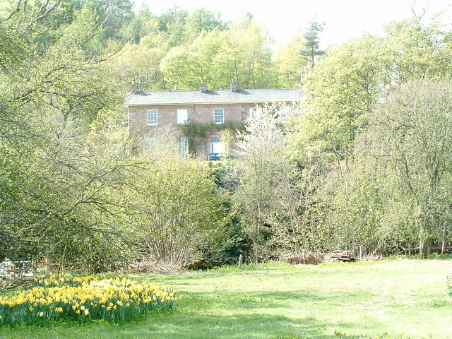 Rickarton House. With both the Cowie Water and the Cowton Burn flowing past its frontage this house stands in a beautiful setting